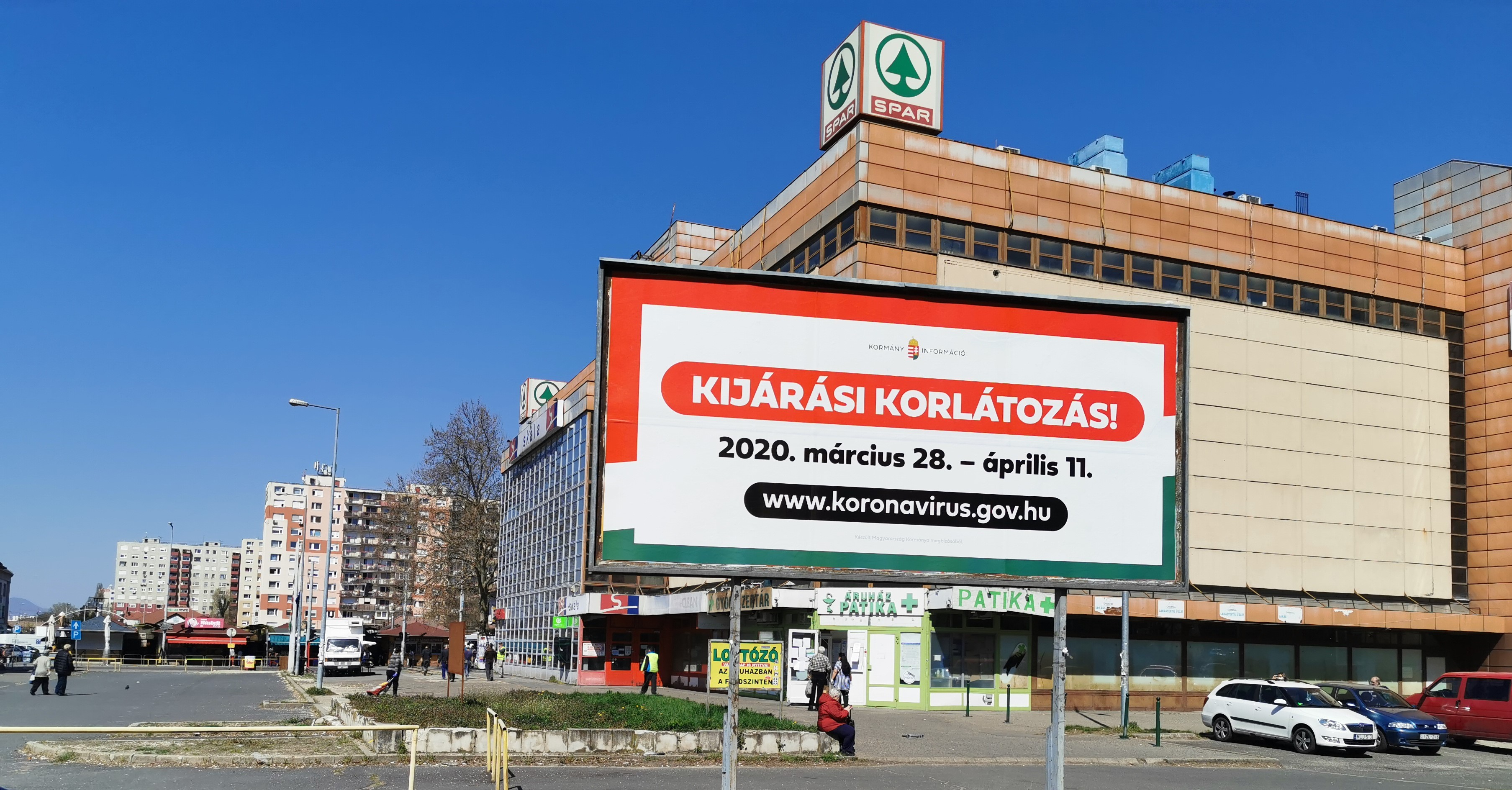 Spár Áruház, Kispest 2020. április 9-e csütörtökön.